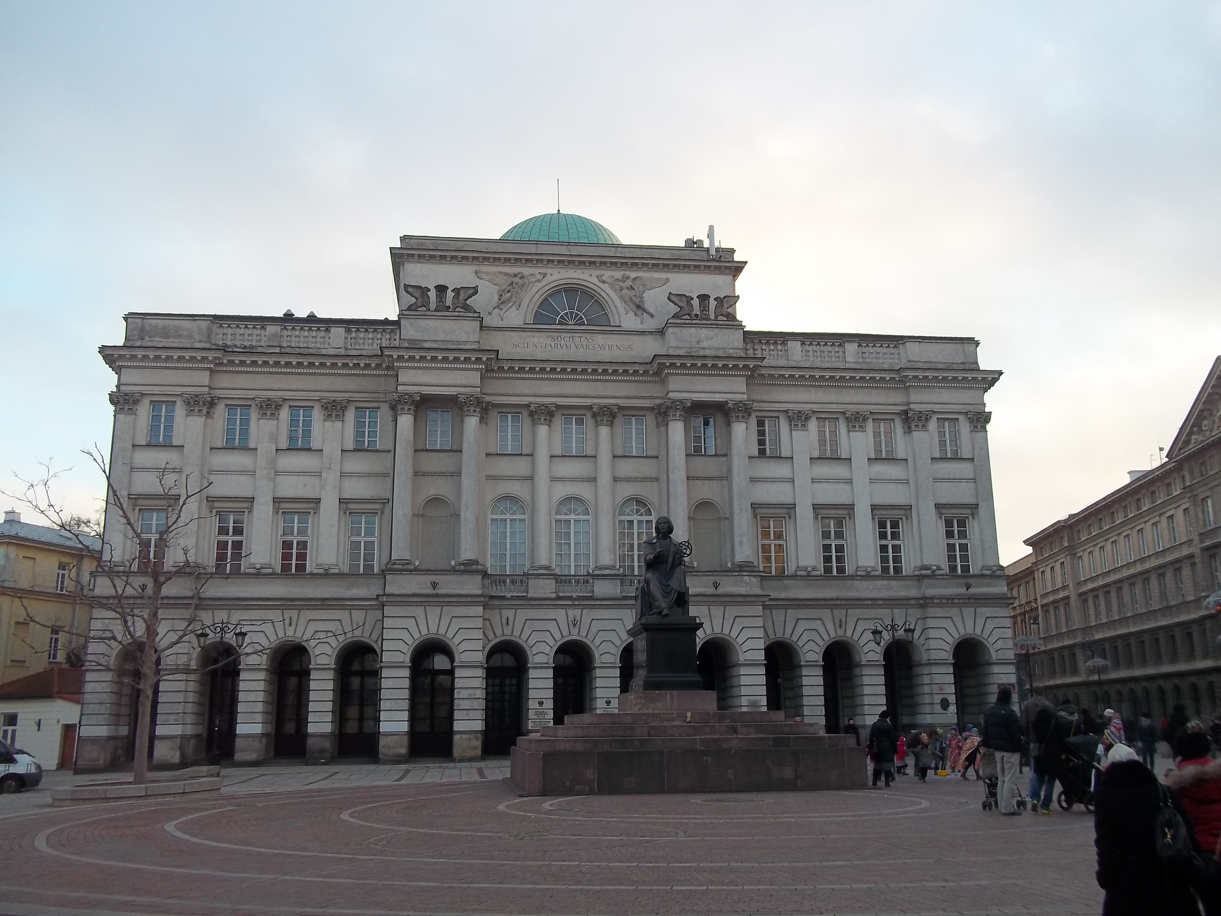 Polish Academy of Sciences and the Nicolaus Copernicus Monument, Warsaw, Poland.